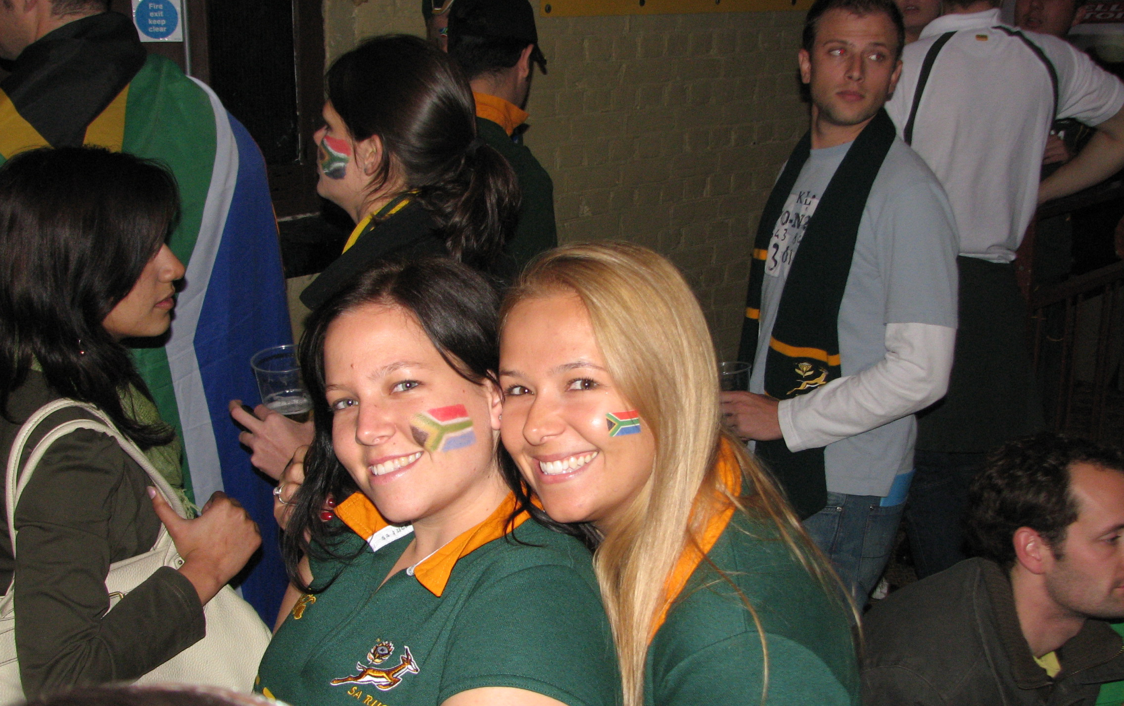 South Africa Rugby World Cup 2007 Winners Fiesta in London